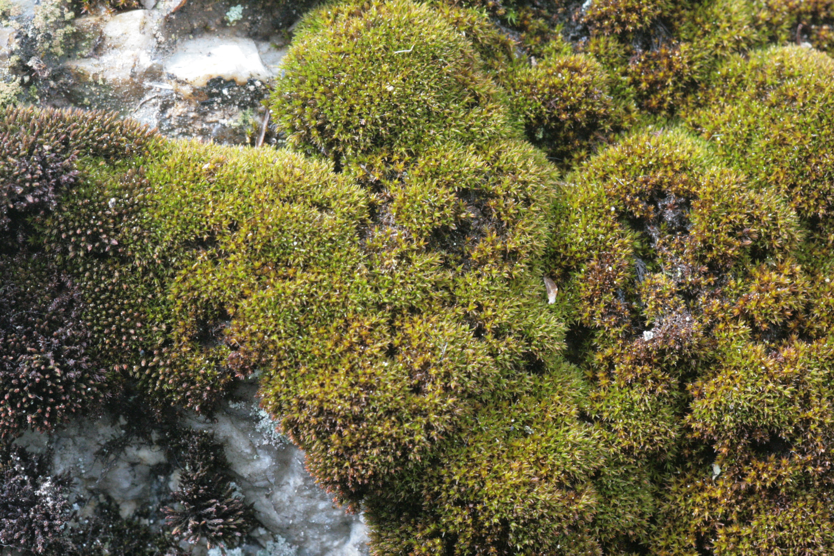 Andreaea rupestris